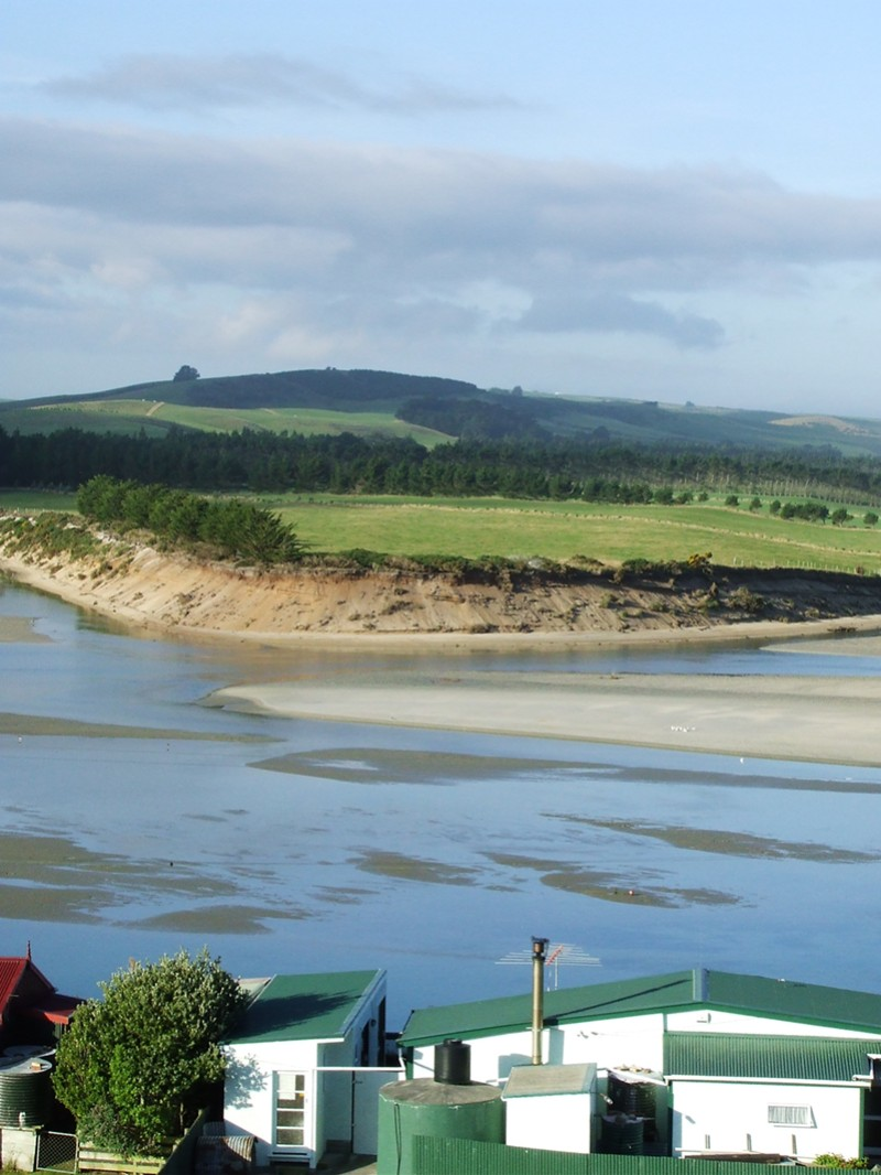 Toko Mouth, Mouth of Tokomairiro River, Clutha District of Otago in New Zealand.